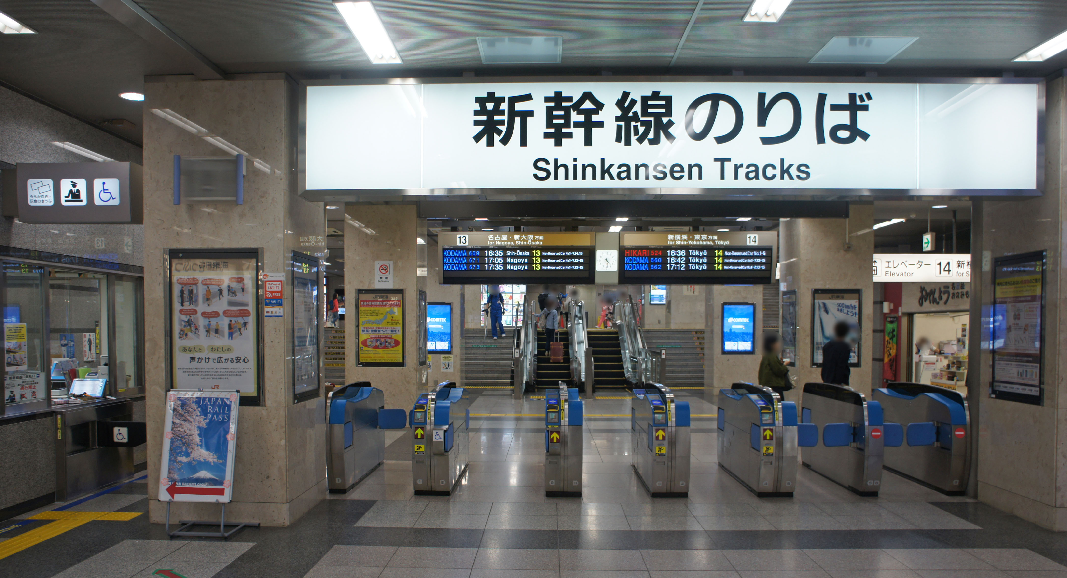 Shinkansen Gates of JR Odawara Station